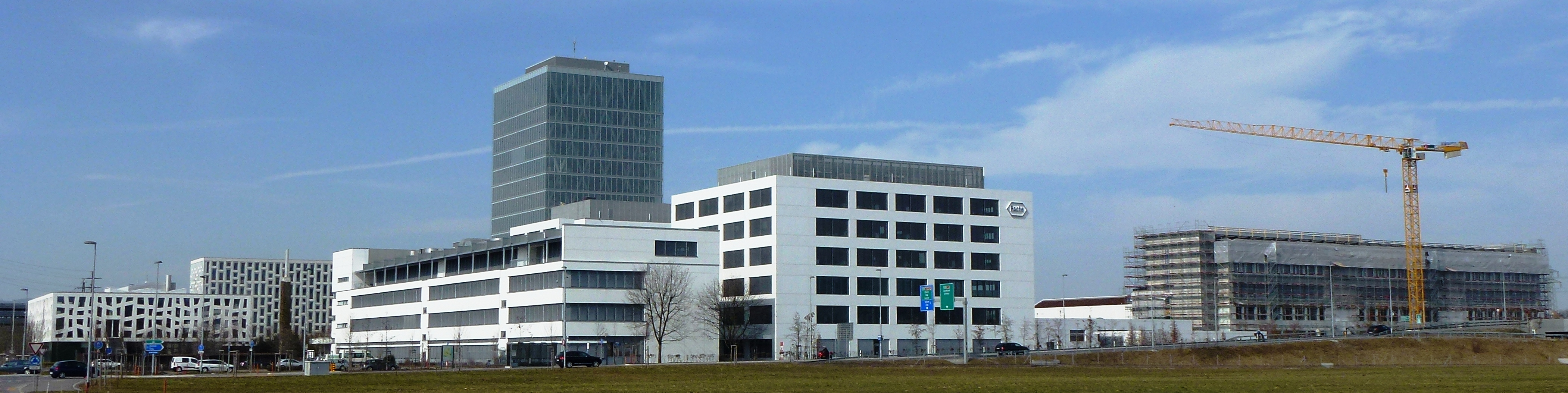 The Headquater of Roche Diagnostics in Rotkreuz, Switzerland. You can see amongst others the Reception building with cafeteria on the left and the Roche-Tower in the center, biggest building of the canton of Zug.